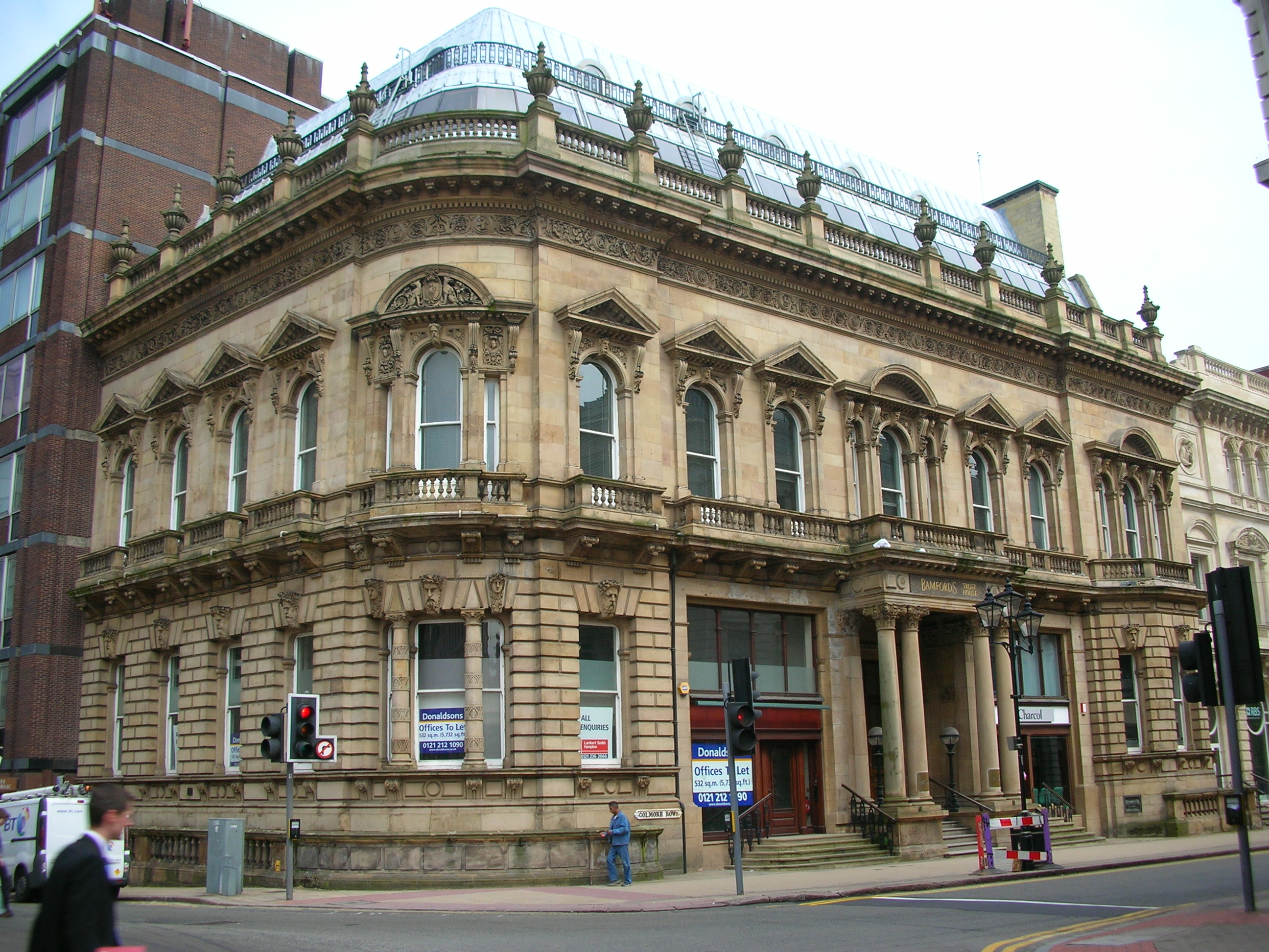 The Union Club, Bamford's Trust House, 85-89 Colmore Row//Newhall Street, Birmingham, England. Architect Yeoville Thomason.